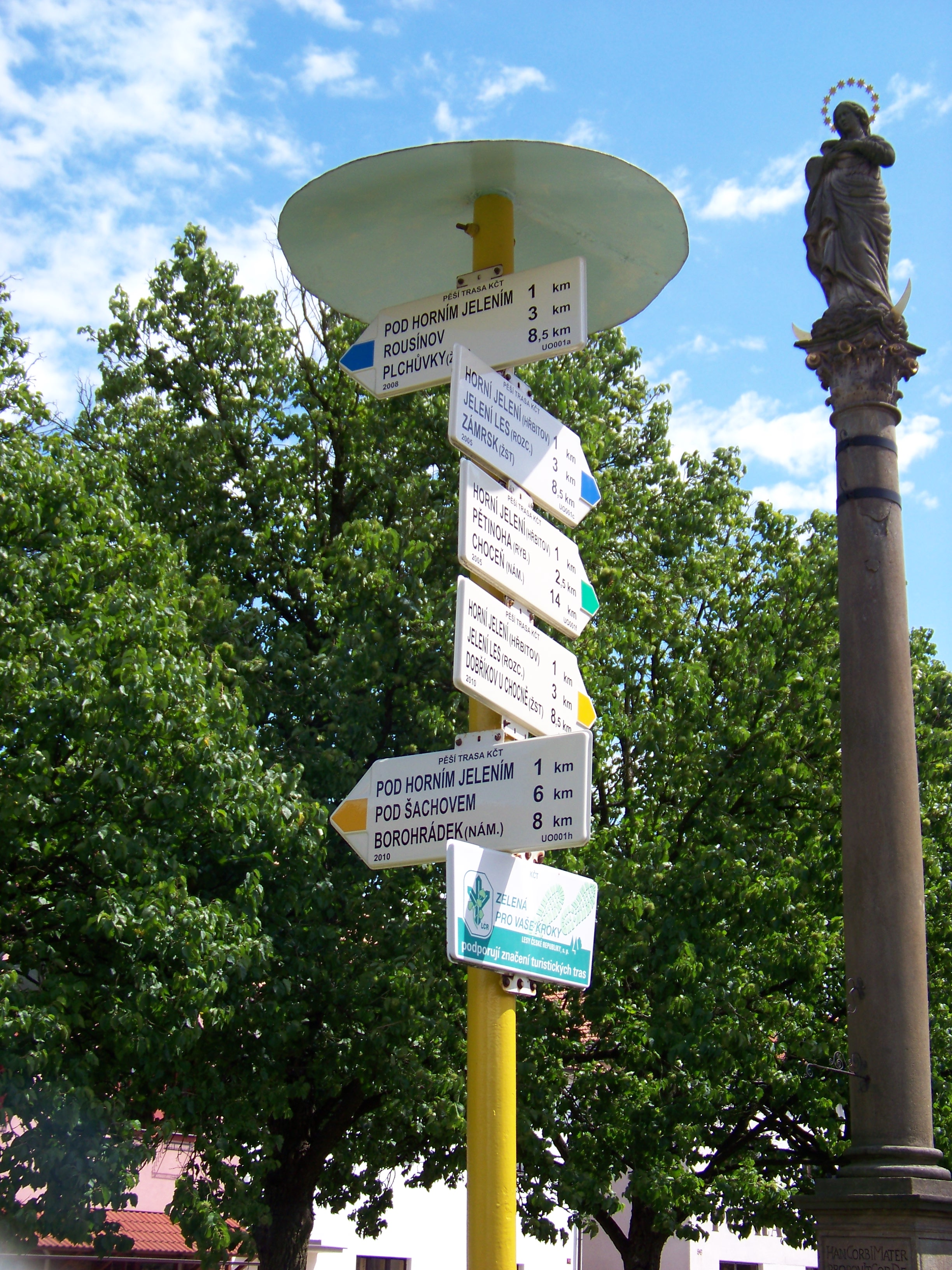 Horní Jelení, Pardubice District, Pardubice Region, the Czech Republic. Comenius Square, a hiking fingerpost. - OpenStreetMap(Info)